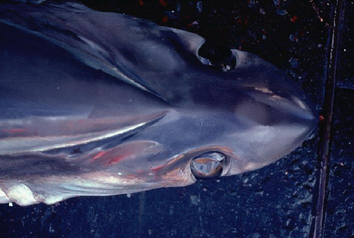 Overhead view of a bigeye thresher shark (Alopias superciliosus)